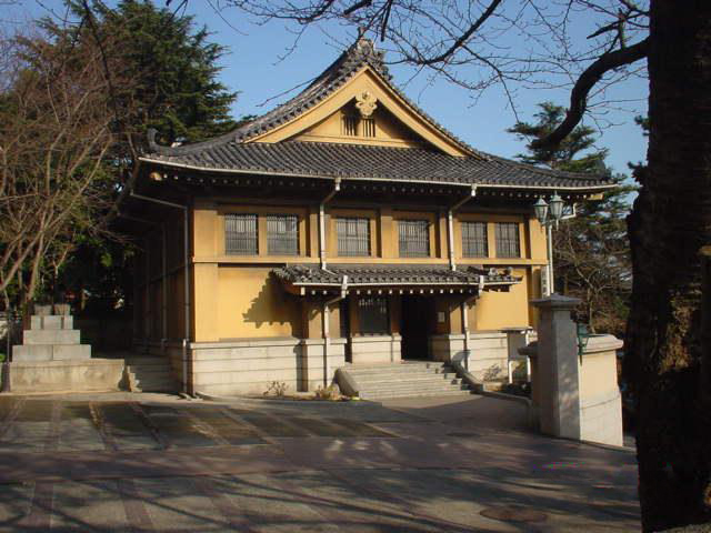 The front of the Shunpanrou hall where the Treaty of Shimonoseki was signed in 1895. The statues of Mutsu Munemitsu and Ito Hirobumi (the Japanese representatives) are just visible on the left.